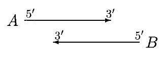 one of the test cases of overlapped genes